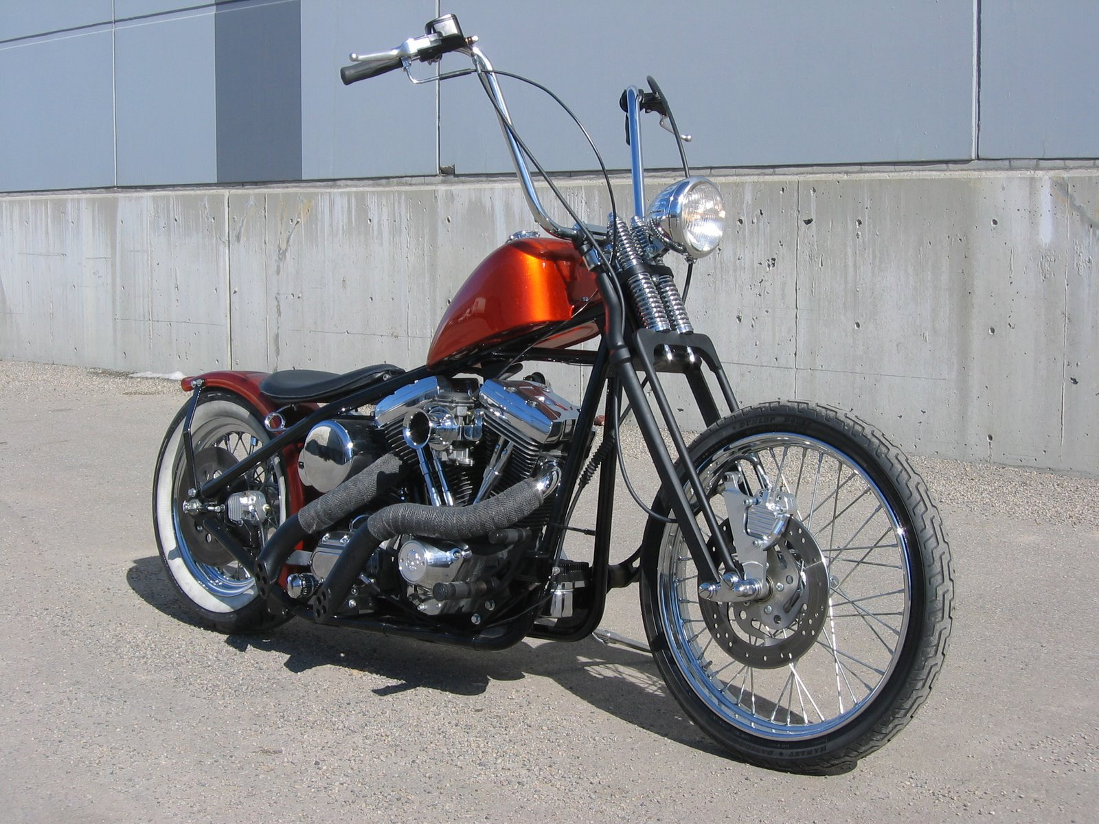 Bad Ass BOBBER